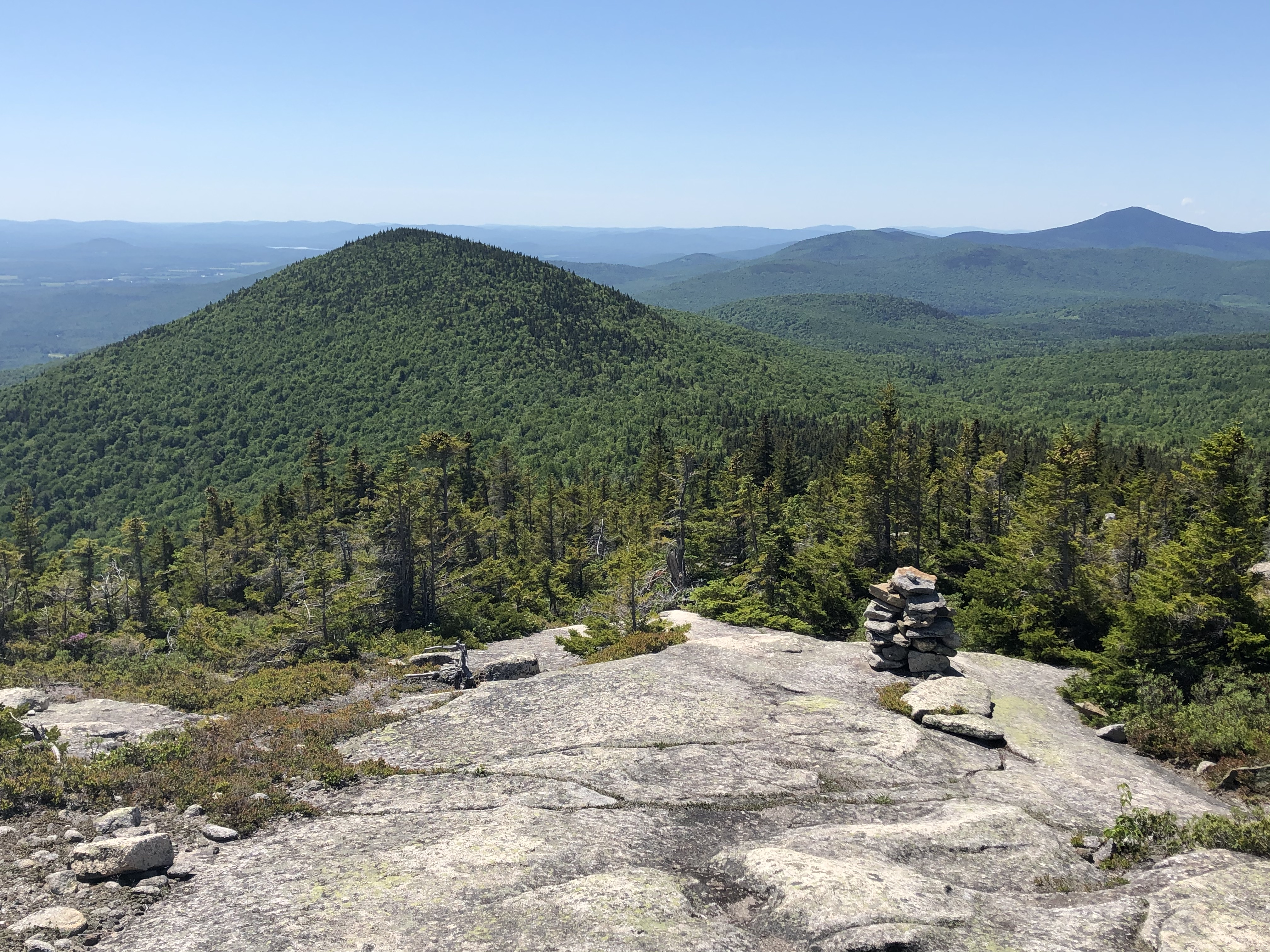 Eastman Mountain in the White Mountains of New Hampshire